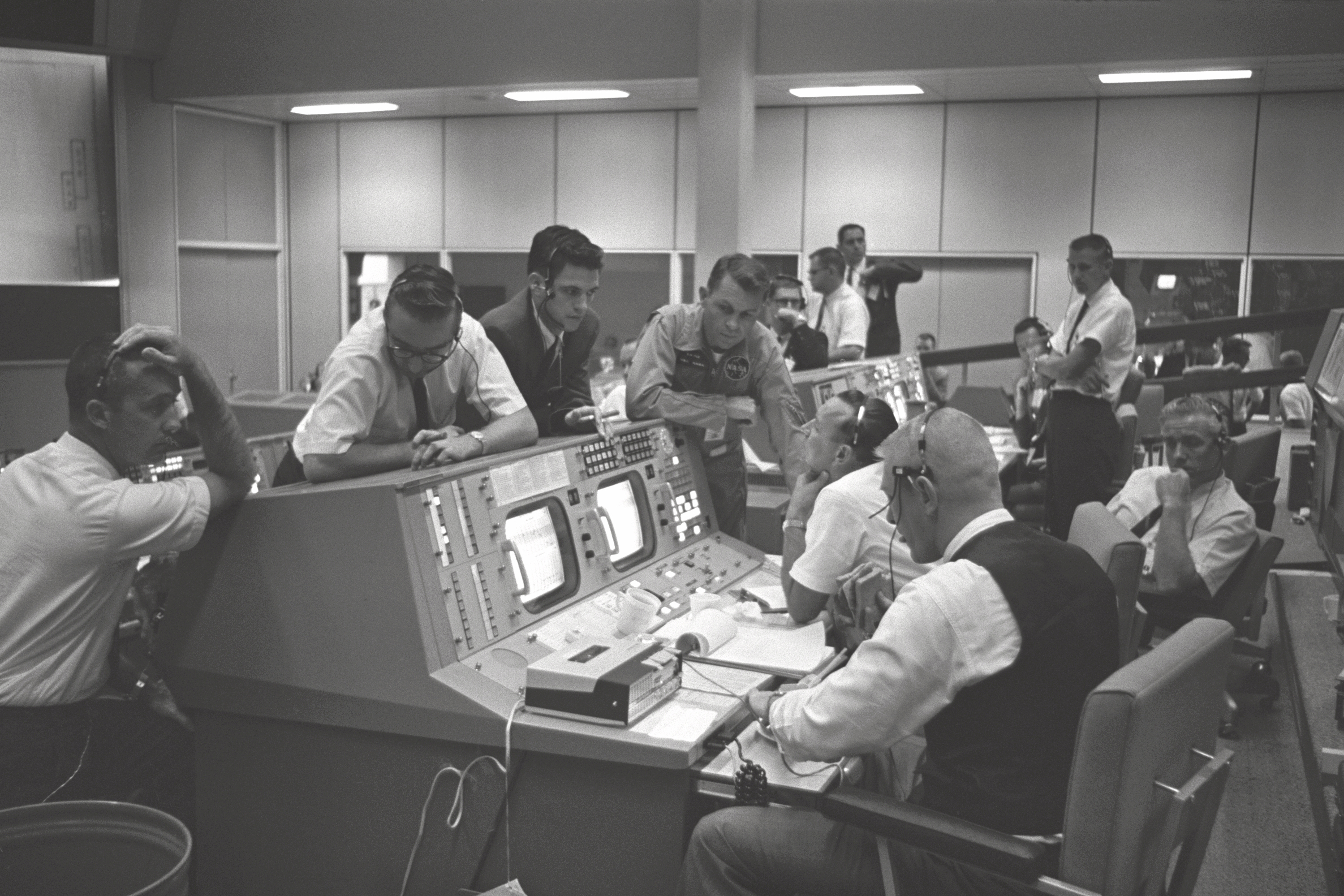 View of the Flight Directors console in the Mission Control Center (MCC), Houston, Texas, during the Gemini 5 flight. Seated at the console are Eugene F. Kranz (foreground) and Dr. Christopher C. Kraft Jr. (background). Standing in front of the console are Dr. Charles Berry (left), an unidentified man in the center and astronaut Elliot M. See.